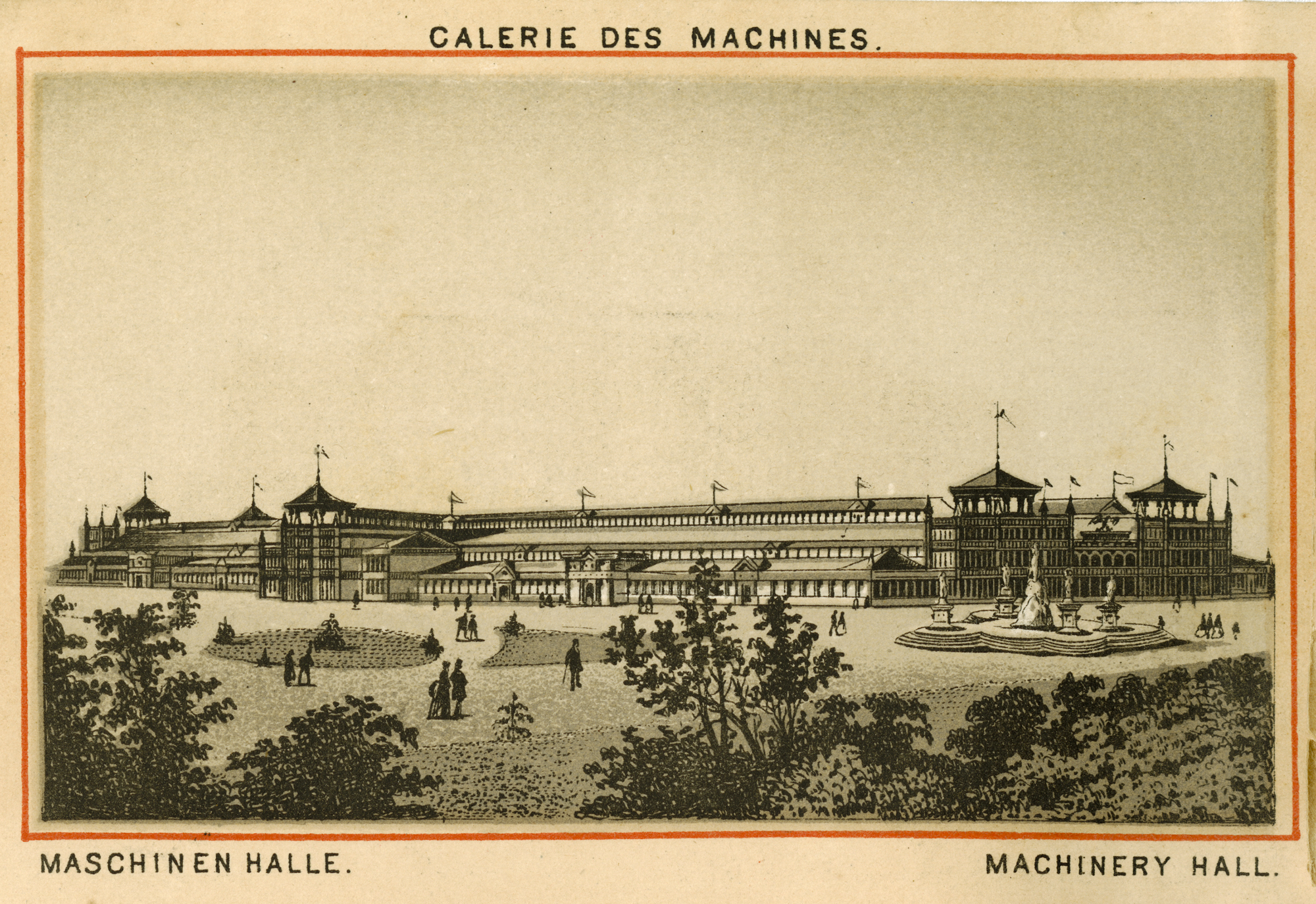 Machinery Hall at The Centennial International Exhibition of 1876, the first official World's Fair in the United States